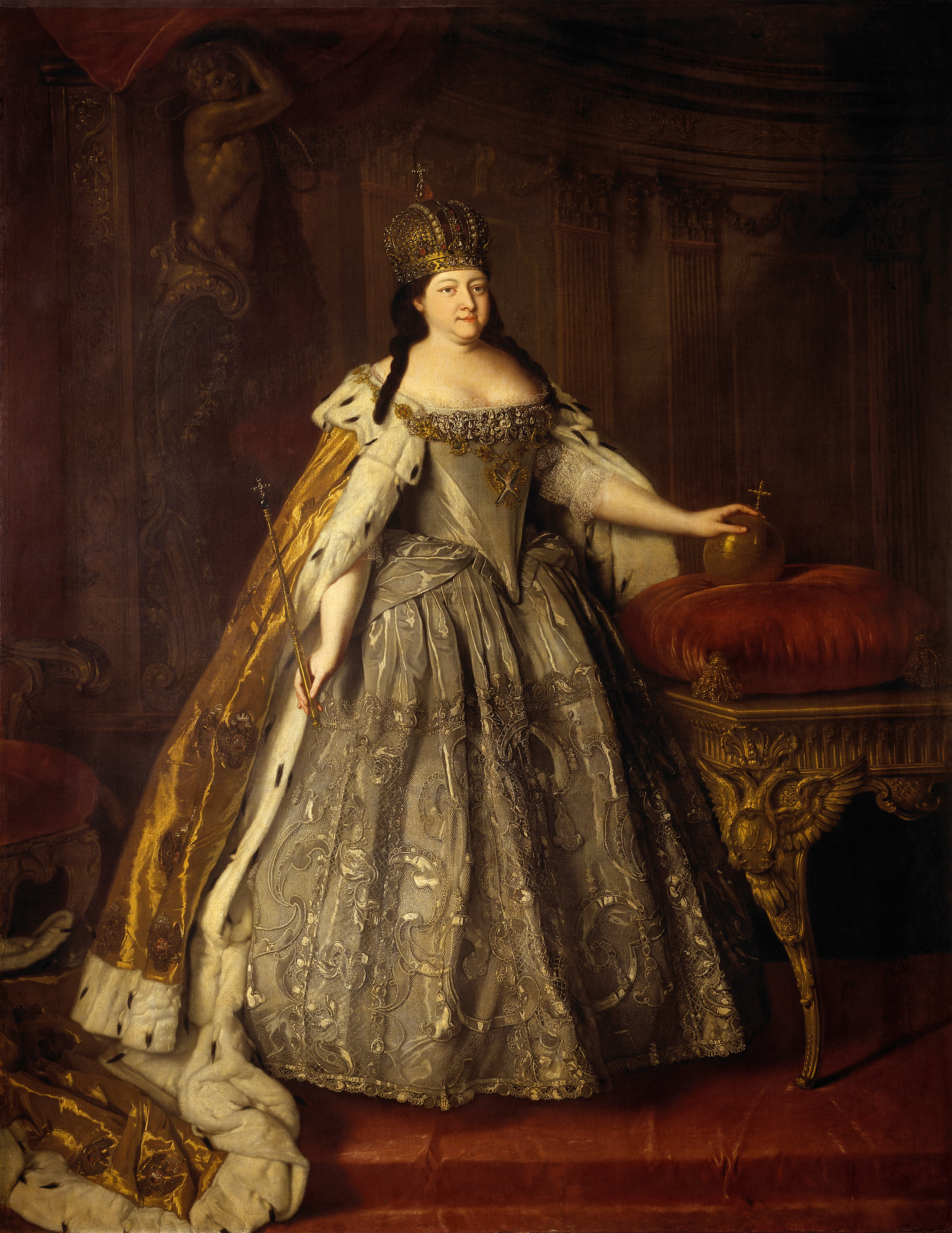 The artist sets down all the attributes of power – a lavish coronation dress over which she wears an ermine mantle, the crown, scepter, and orb displayed on a velvet cushion. The large and heavy figure of Anna Ioannovna has compelled the artist to use a monumental composition. The appearance of the model hardly corresponds to the way she looked in life. Princess N.B.Dolgorukaya wrote about Anna Ioannovna: “… she had a terrifying gaze and an unpleasant face; she was so big that when she walked with courtiers she was head and shoulders above them and exceedingly fat".